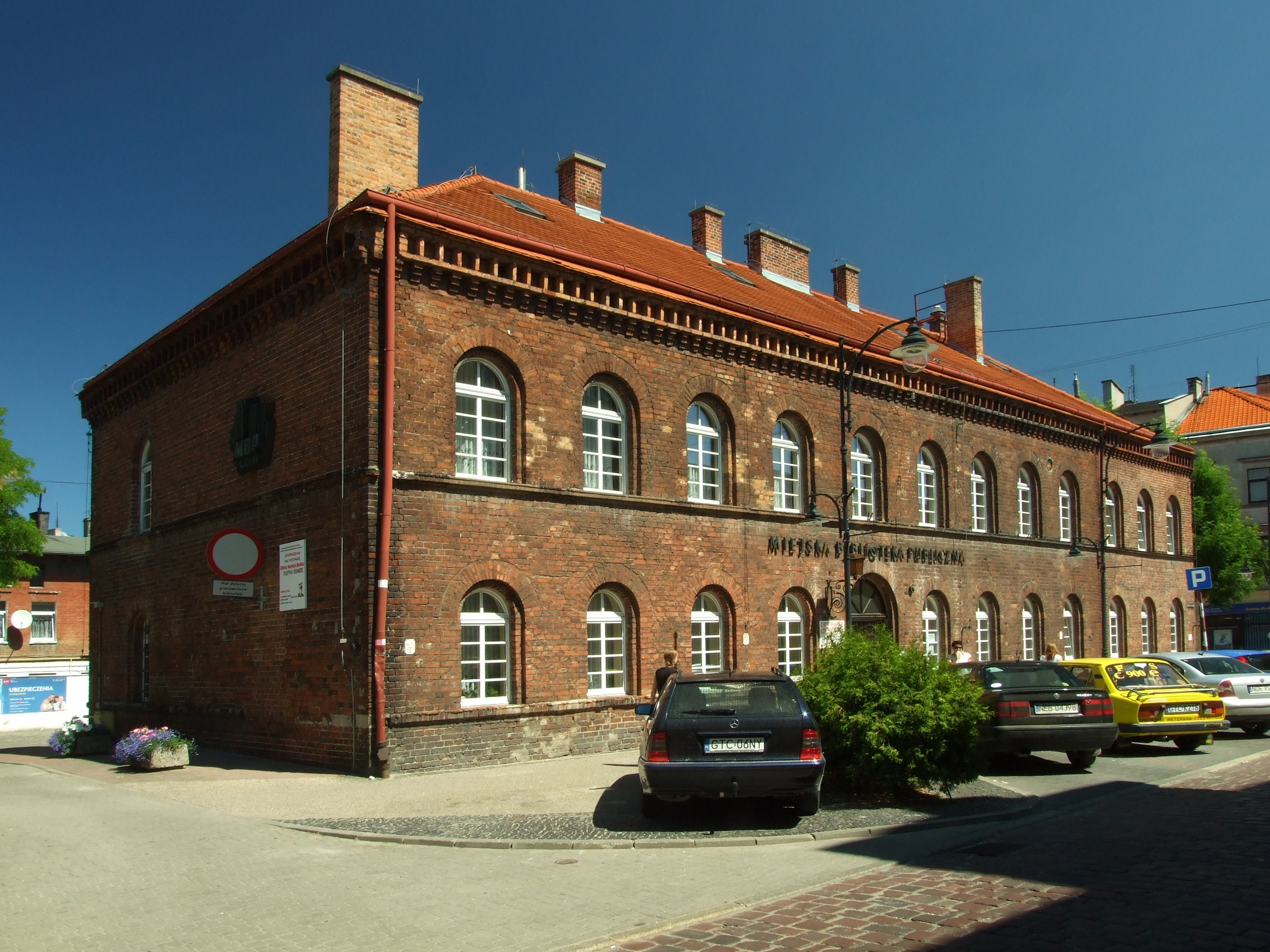 Public library at Jarosława Dąmbrowskiego street in central part of the town of Tczew, Pomorskie voivodeship, Poland